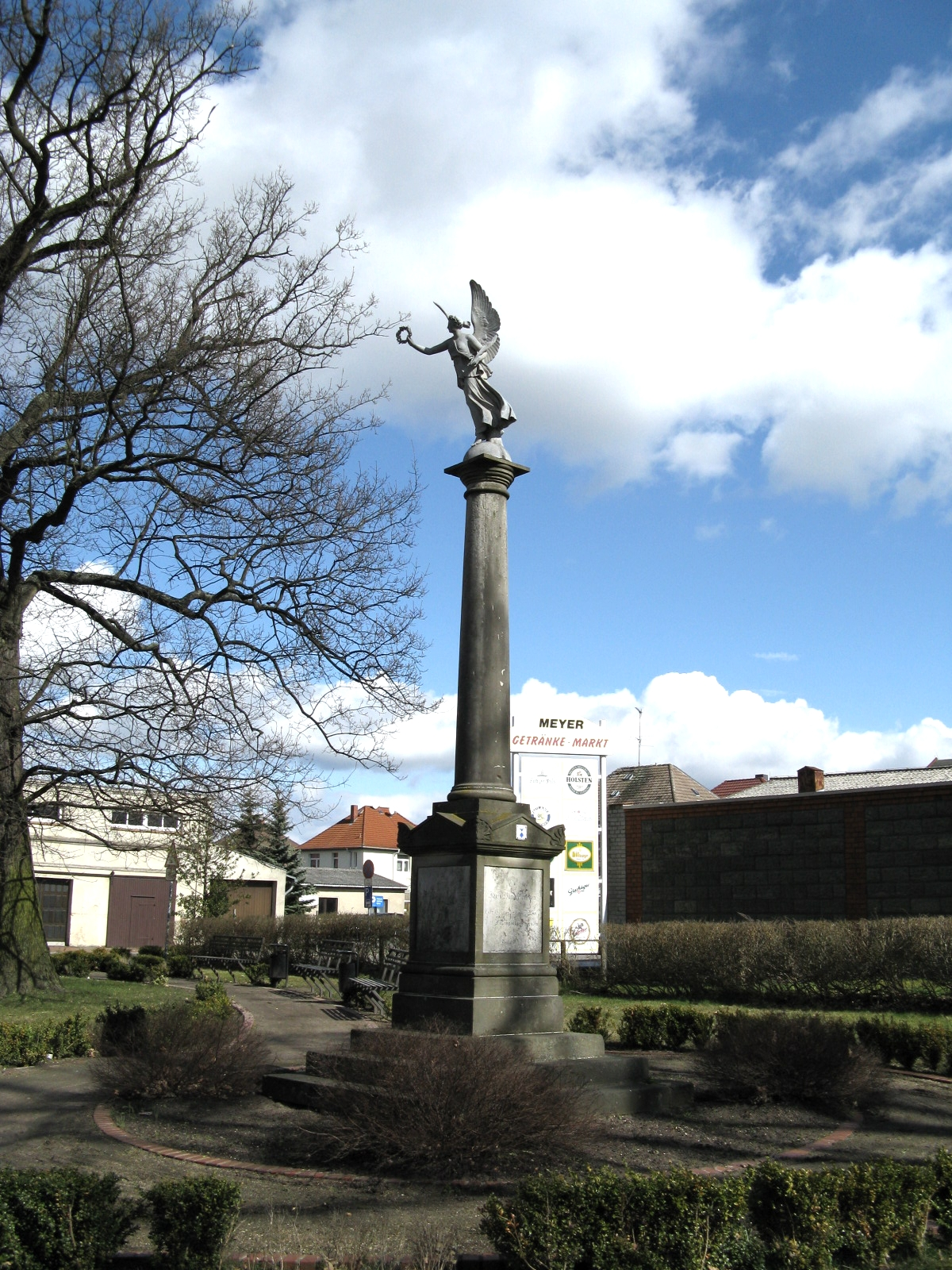 Memorial in Goldberg, Germany